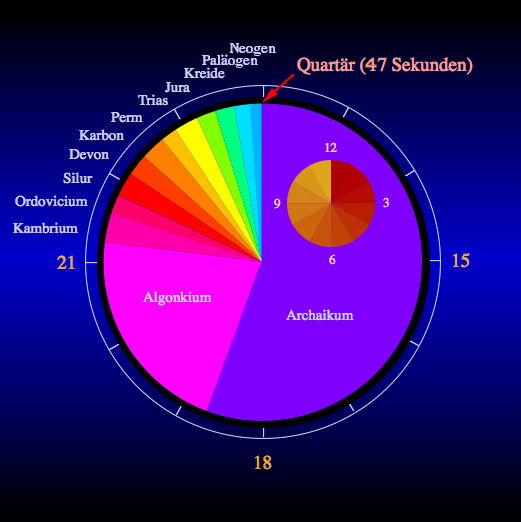 An Earth clock showing relationship of duration of the various era/periods of the earth history to one day. The Quaternary, comprising the last 2.6 million years, is just 47 seconds on a clock where 24 hours are related to the total age of the earth of 4.7 Billion years.